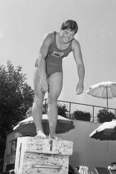 Sheila Watt at the Rome Olympics